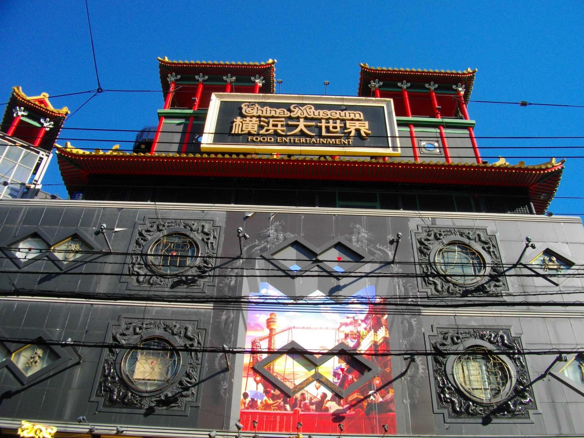 Yokohama Daisekai